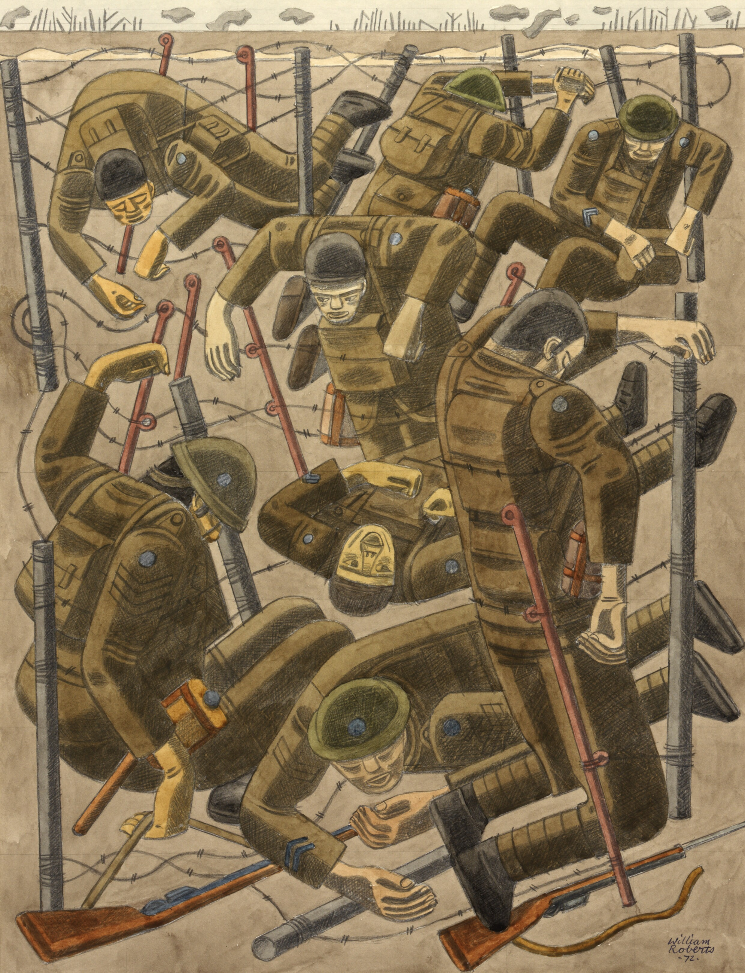 On the Wire - Inspired by "with a Machine Gun to Cambrai" image: a group of British soldiers, dead and dying, lie entagled in a web of barbed wire before a German trench.